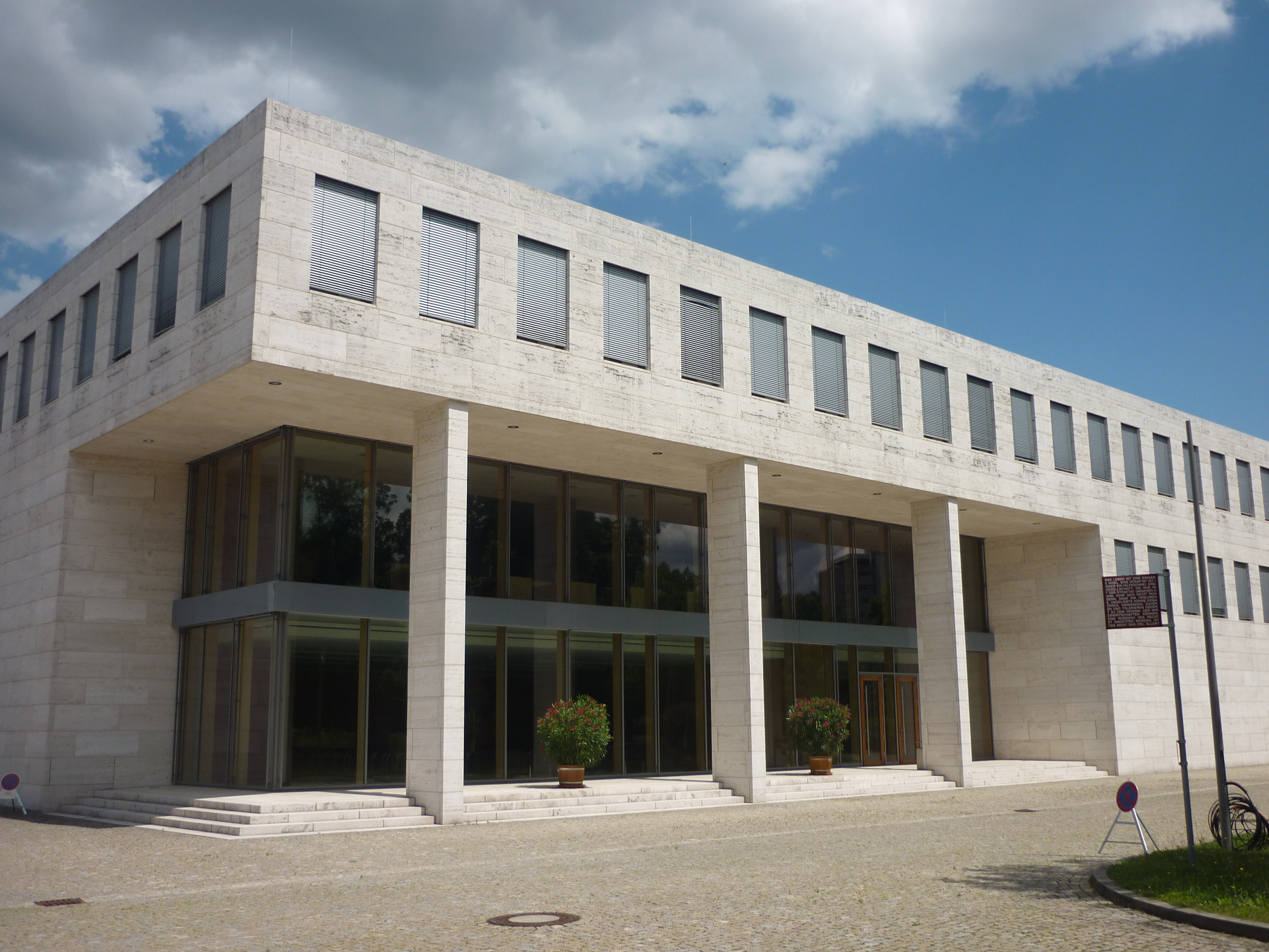 Library of the Federal Court of Justice of Germany, Karlsruhe